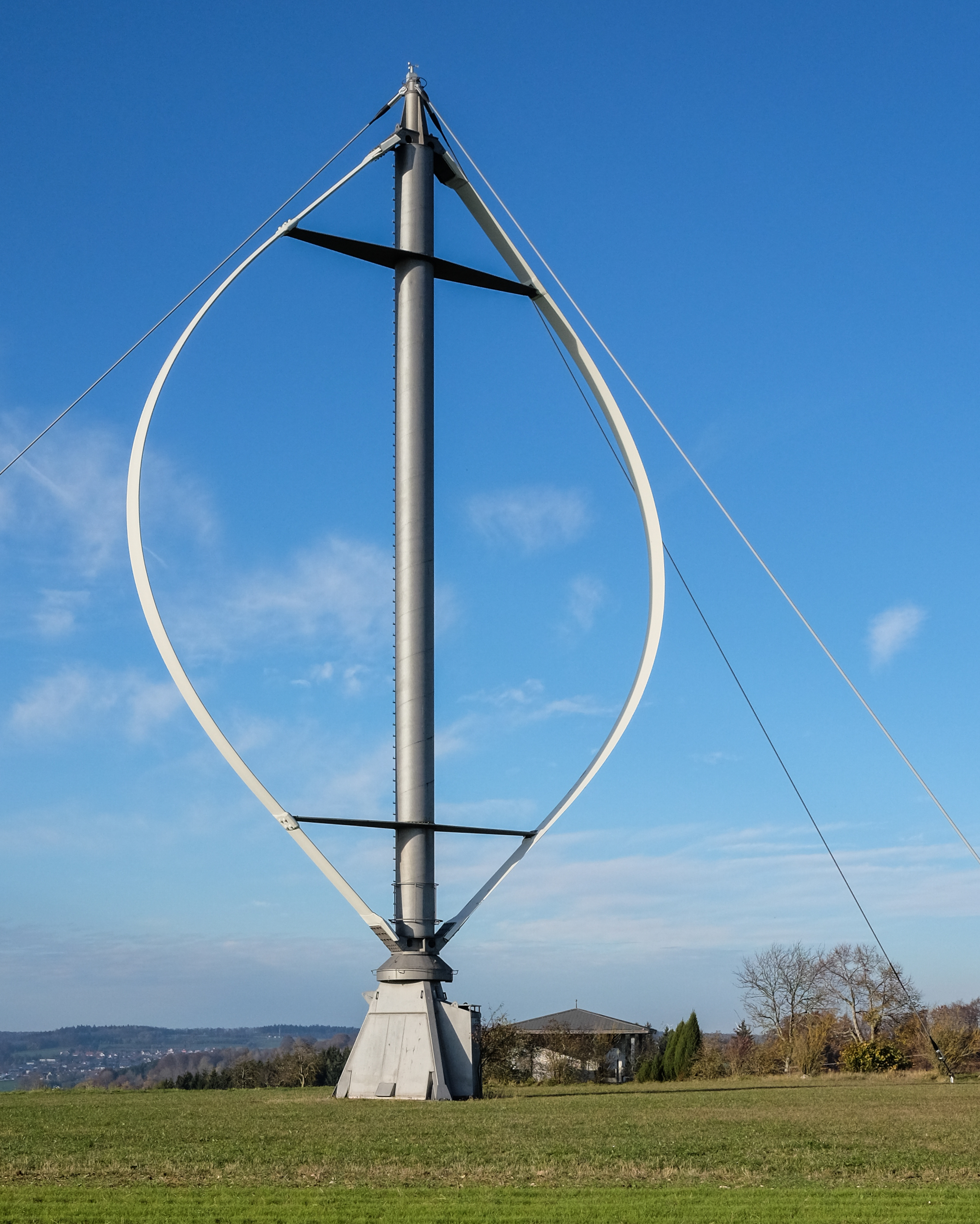 Darrieus wind turbine near Heroldstatt-Ennabeuren, district Alb-Donau-Kreis, Baden-Württemberg, Germany